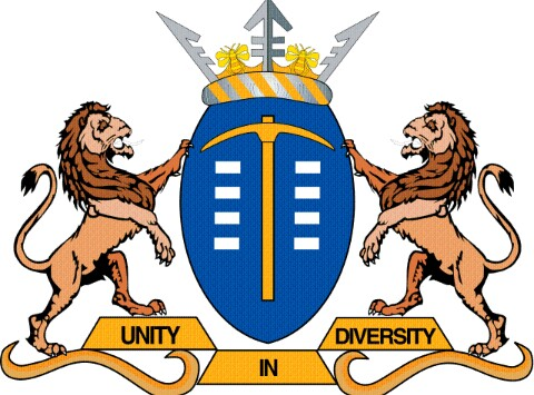 Ibheji lesifundazwe saseGoli